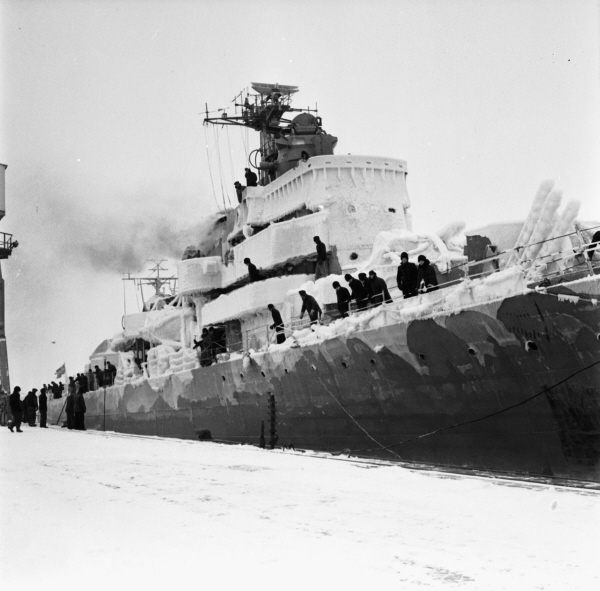 The Swedish destroyer HMS Uppland covered in ice.